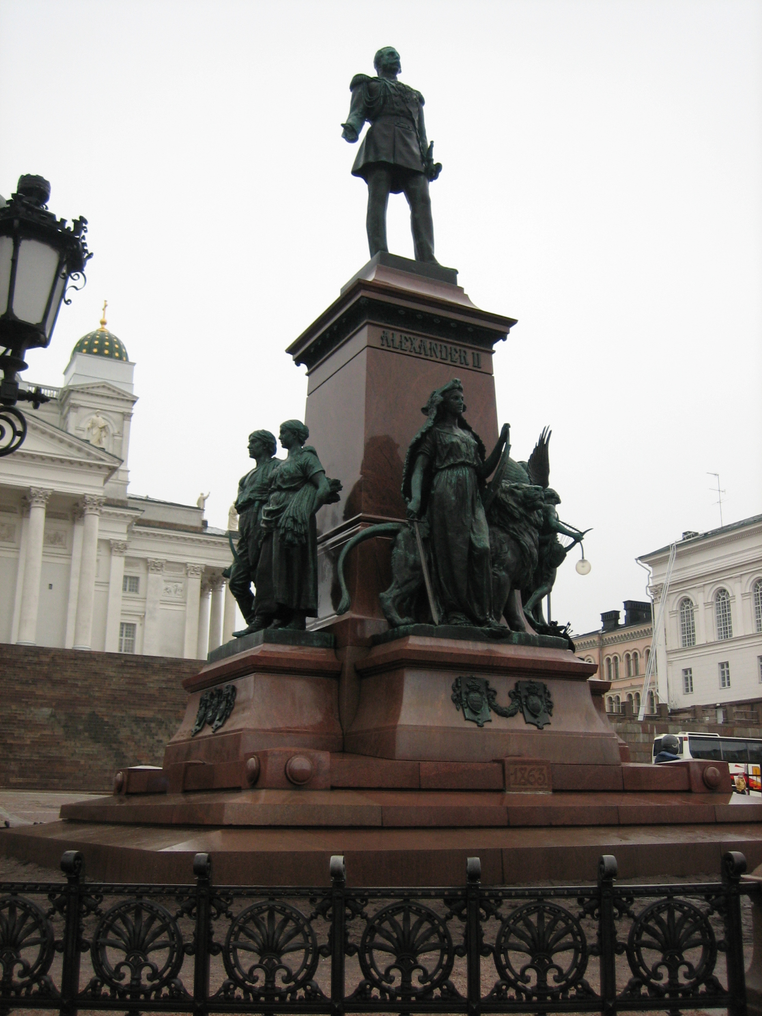 Alexander II (Romanov) monument in Helsinki, Finland